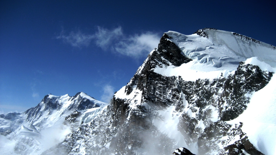 Dufourspitze and Strahlhorn, Pennine Alps